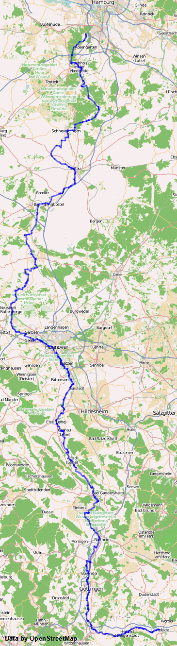 Leine-Heide Cycleway Route